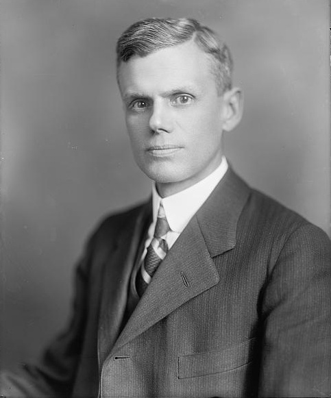 William Lester Nelson, Missouri Congressman